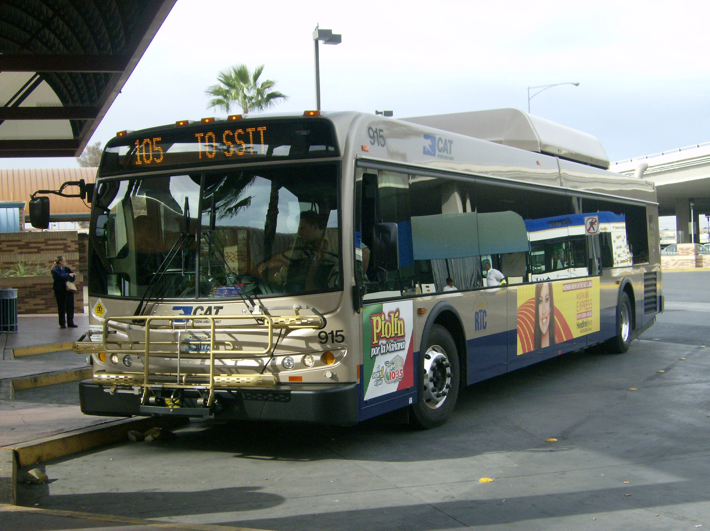 What CAT bus 915 looked like before the accident of January 2008.